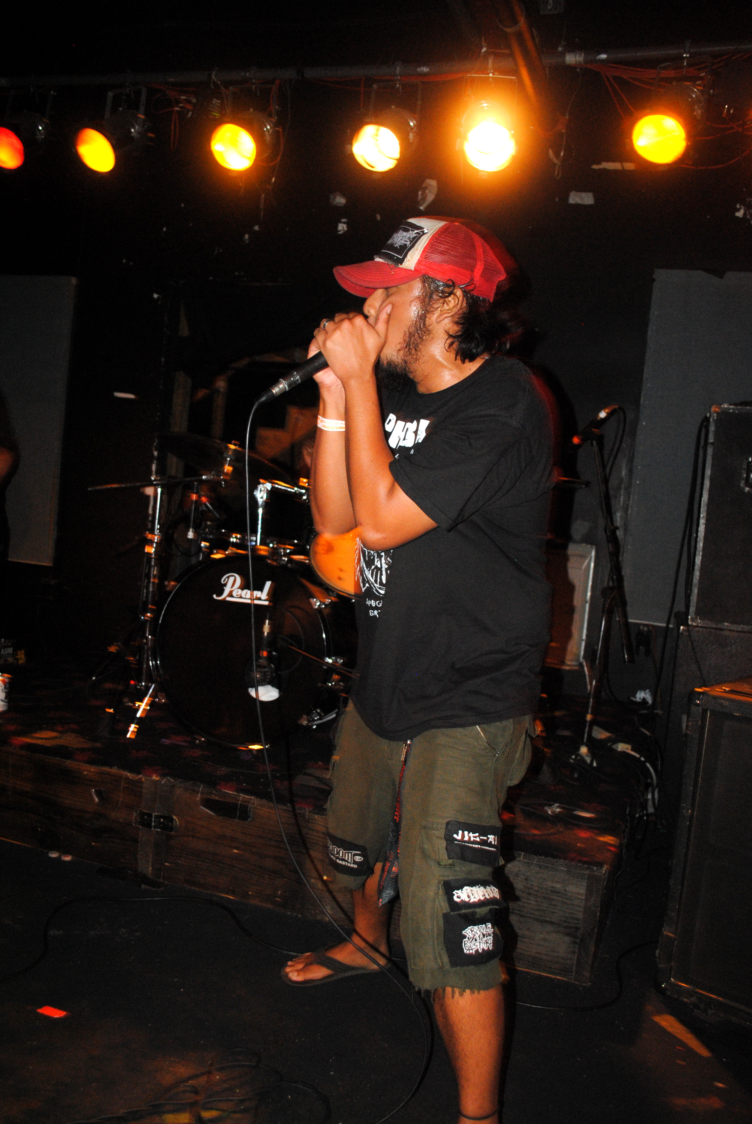 Wormrot live on 9/28/2010 in DC